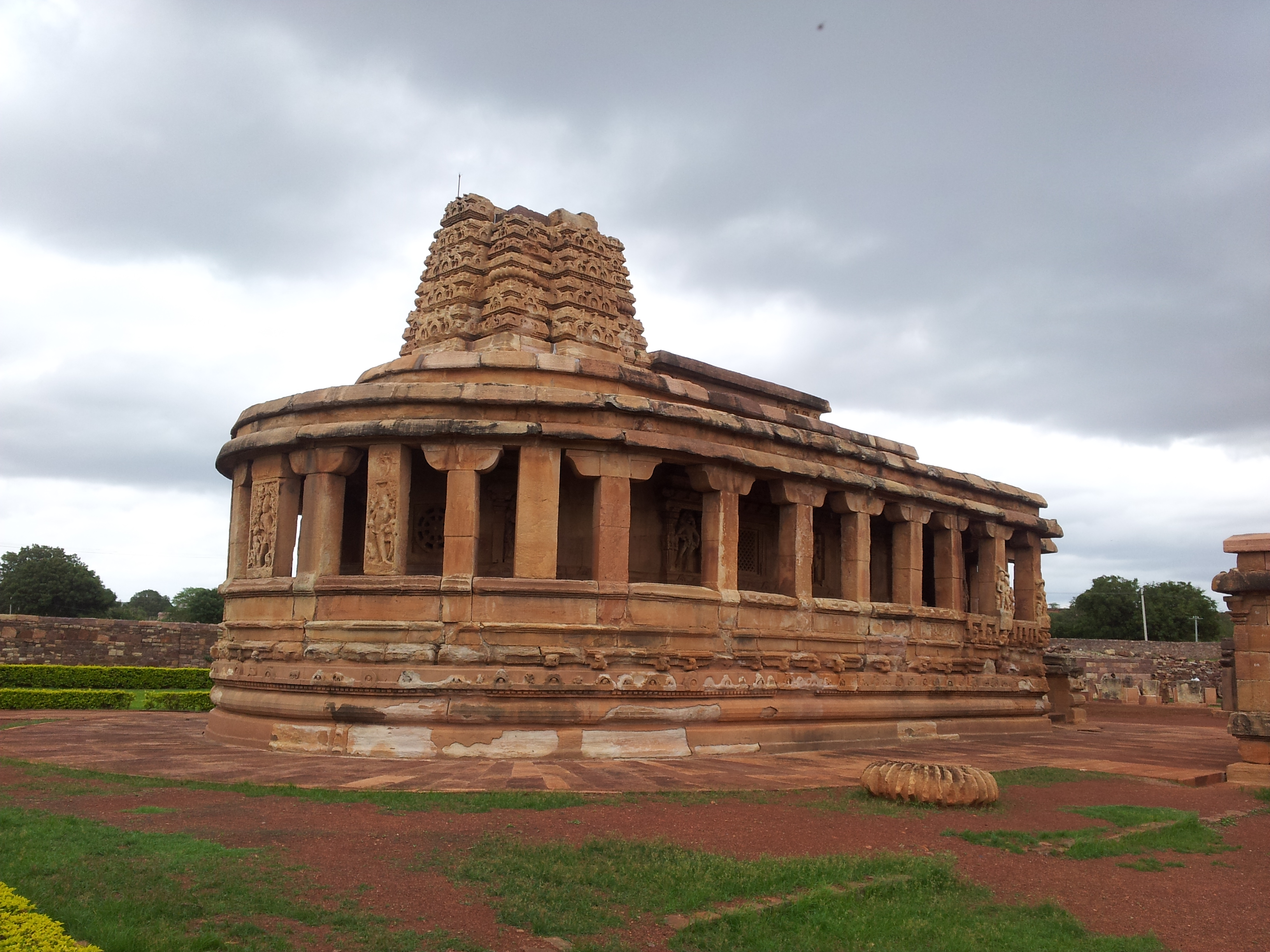 A temple of Galaganatha group (1)